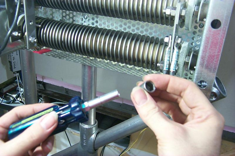 Assembly of a 2kW resistor installed in a wind turbine nacelle.